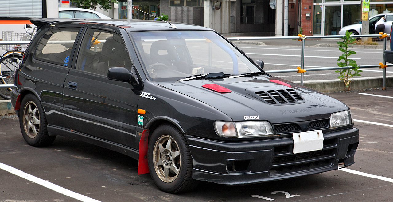 Nissan Pulsar GTI-R ( RNN14 )